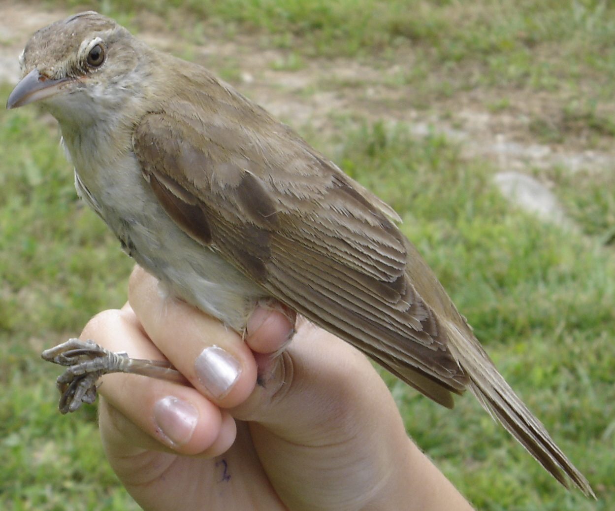 Great Reed Warbler (Acrocephalus arundinaceus, cat.)